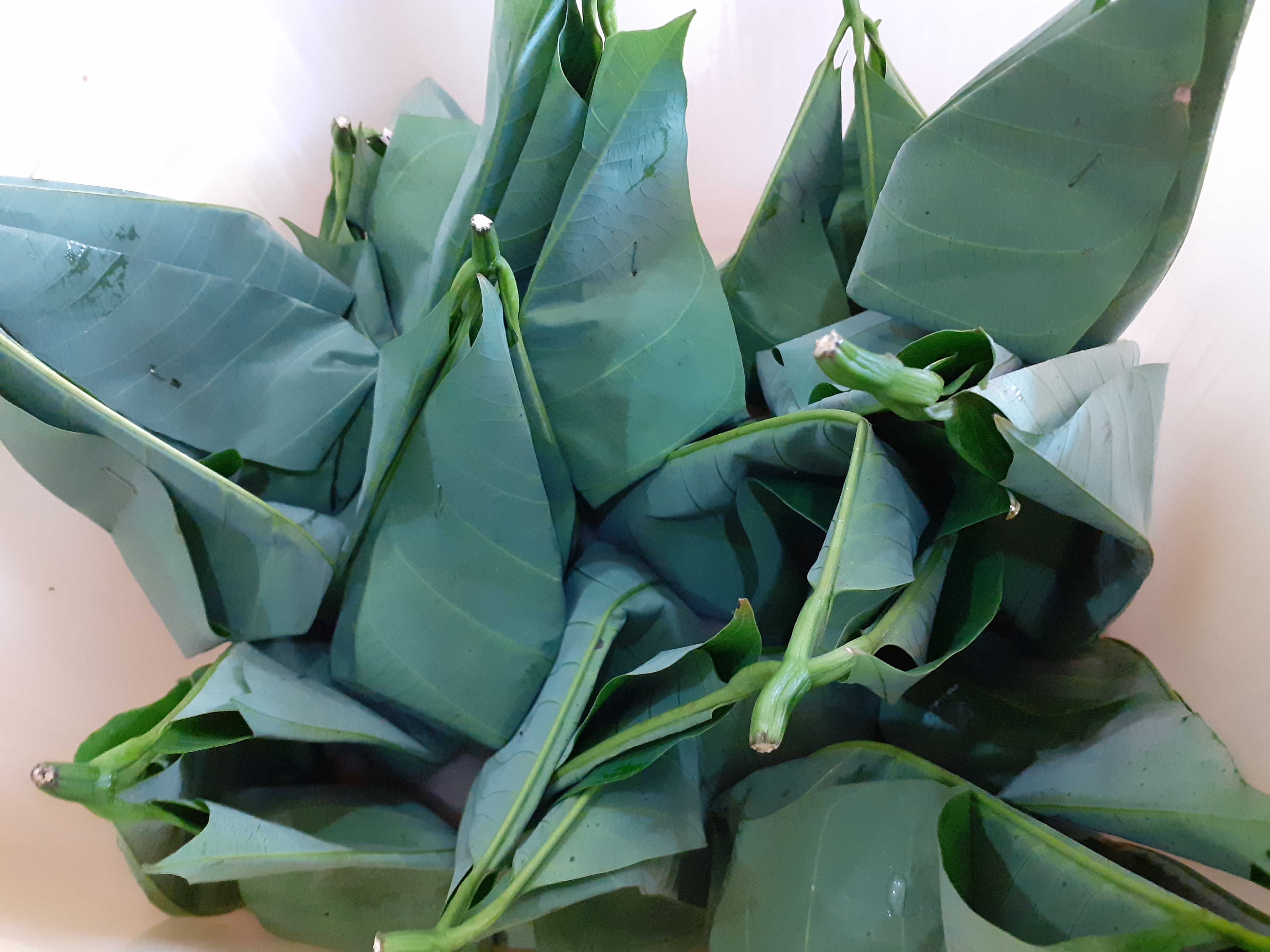 Tapai Pulut is a common food that are eaten by majority of Malays in Malaysia during Hari Raya festival. It is wrapped in the leaf of rubber tree.